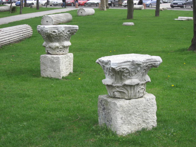 Roman or byzantine remains at Istanbul University campus next to Beyazid Tower